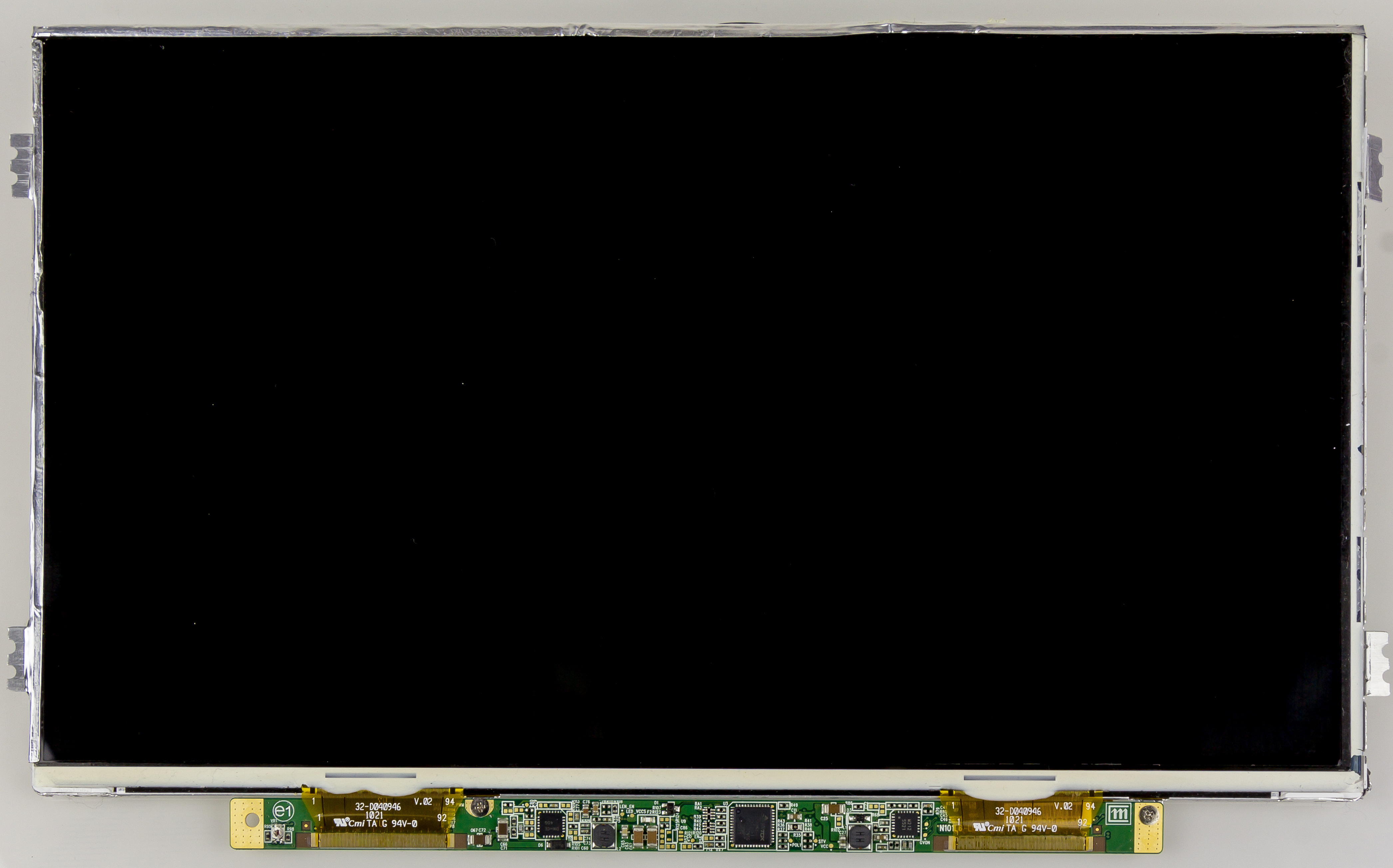 Chi Mei N101L6-L0D - LCD Screen - rear view, used in a Terra Pad 1050